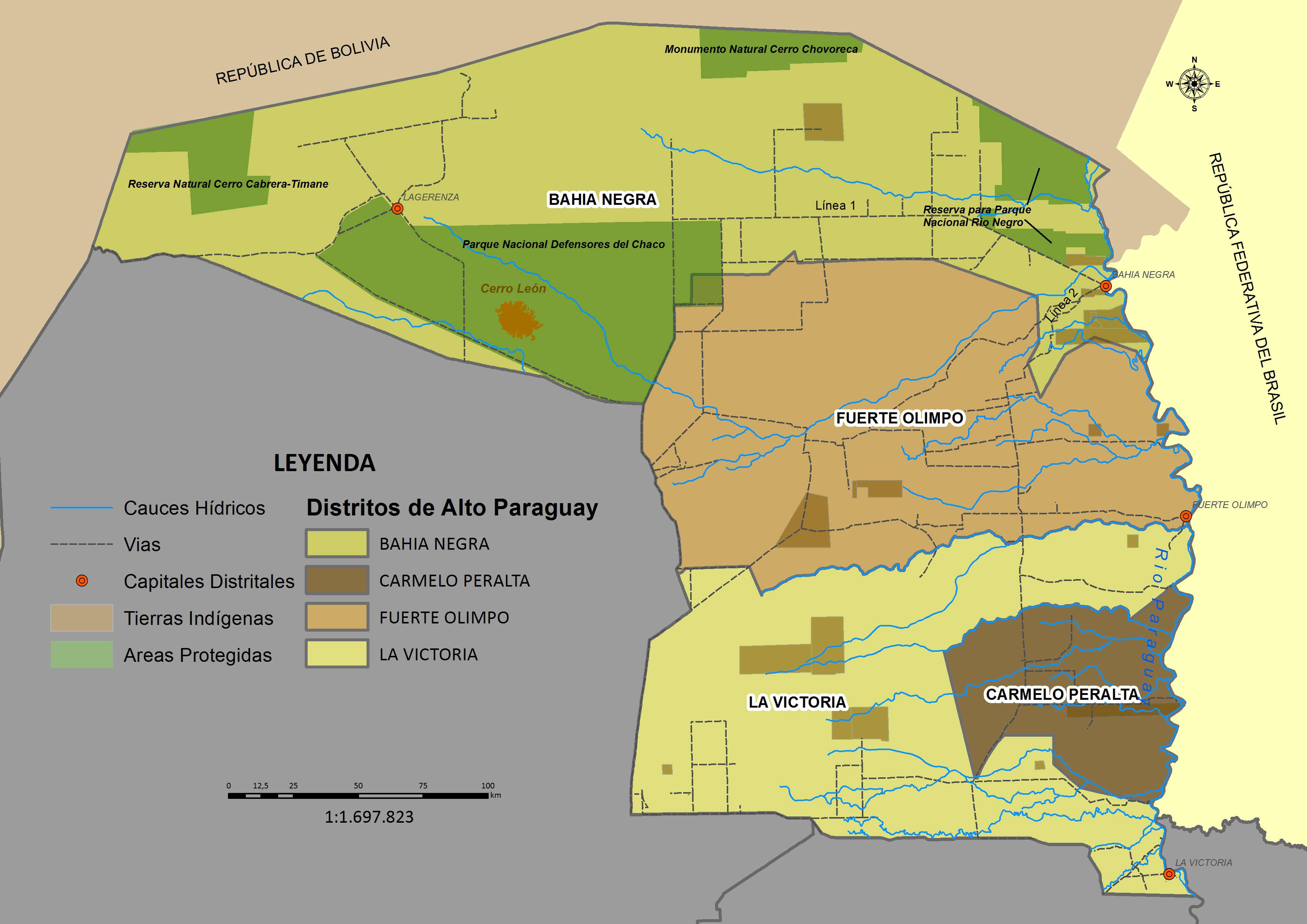 Districts of the Department of Alto Paraguay and main elements of his geography (Indigenous communities, Protected areas, Roads, Rivers, Cities)